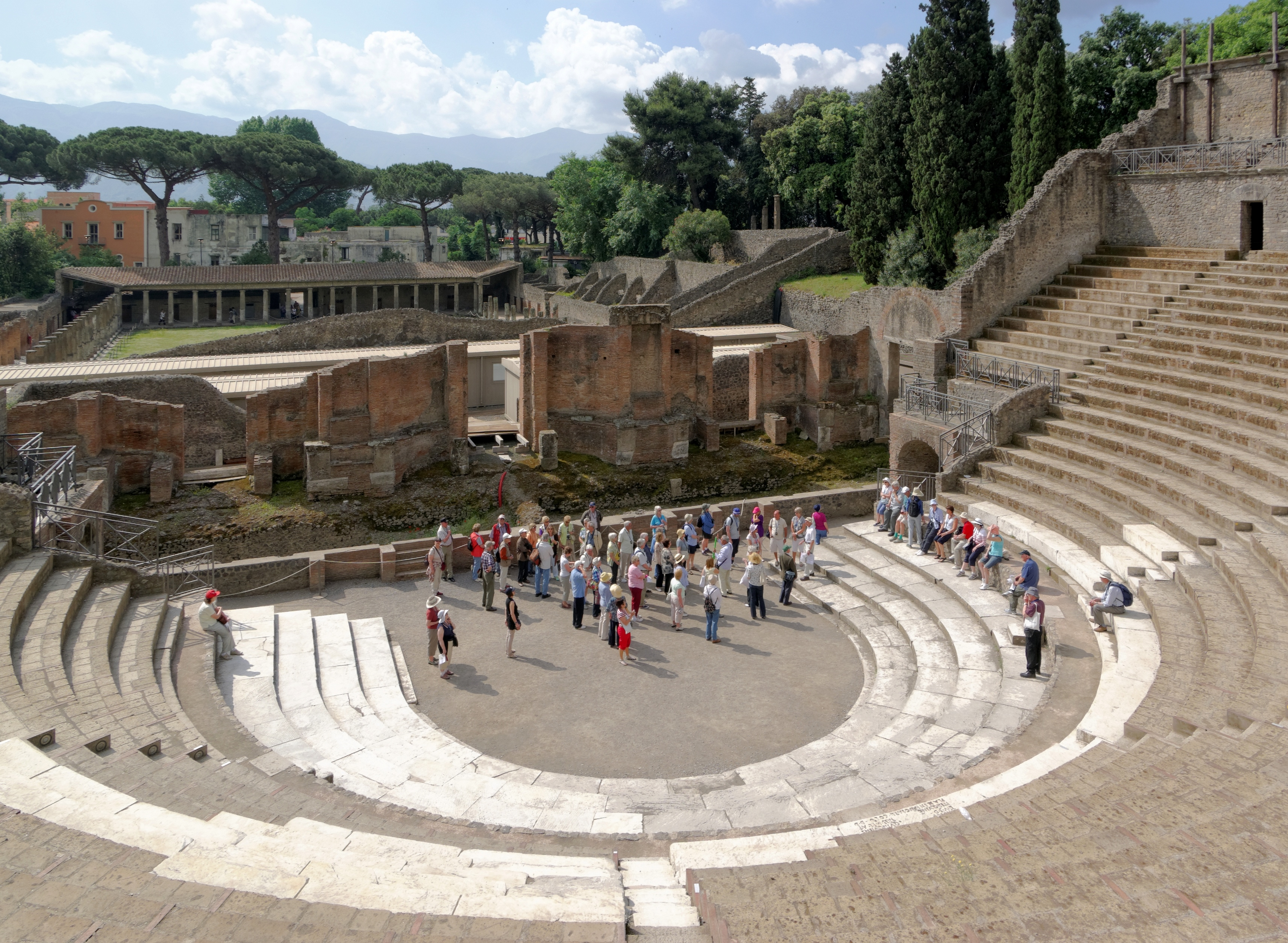 Pompeii, theatre